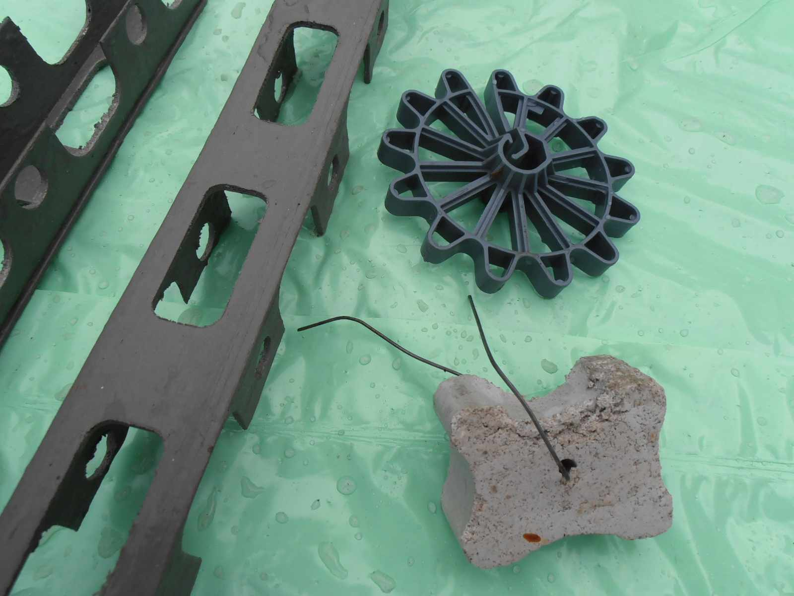 Some rebar supports